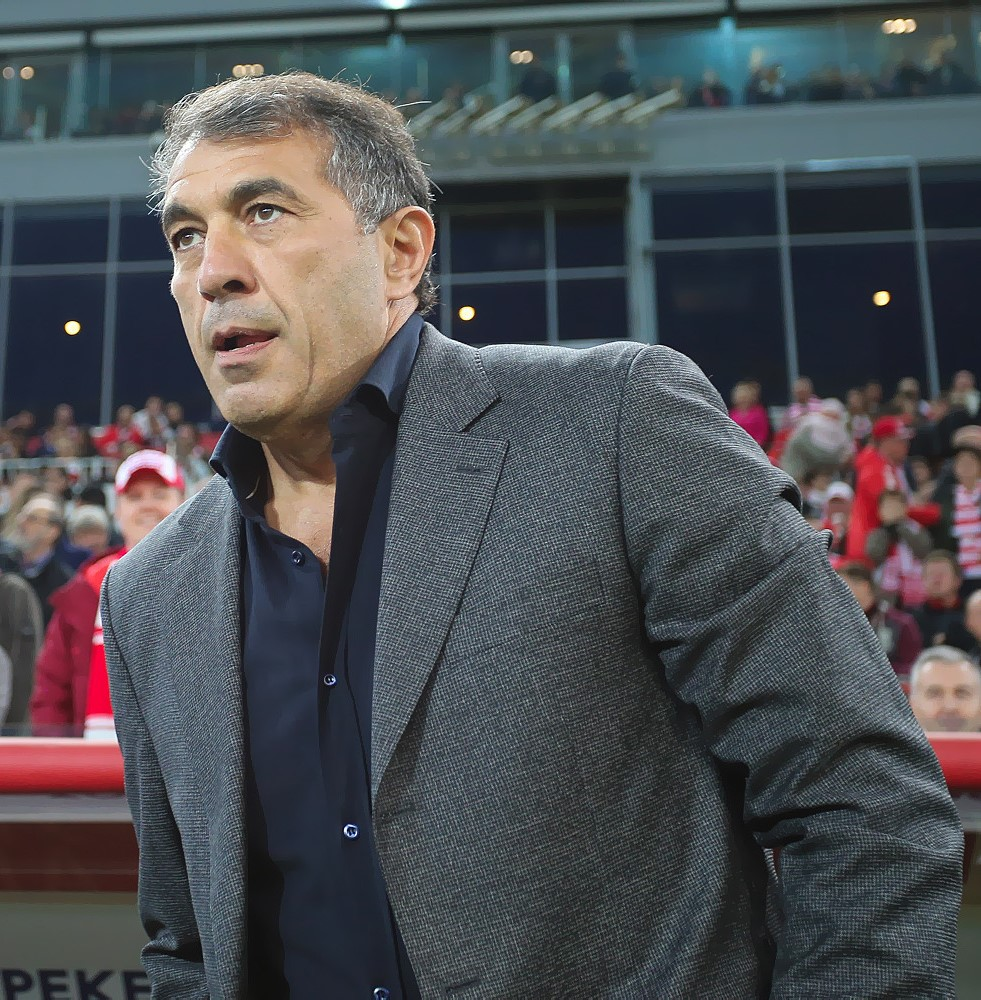 Rashid Rahimov